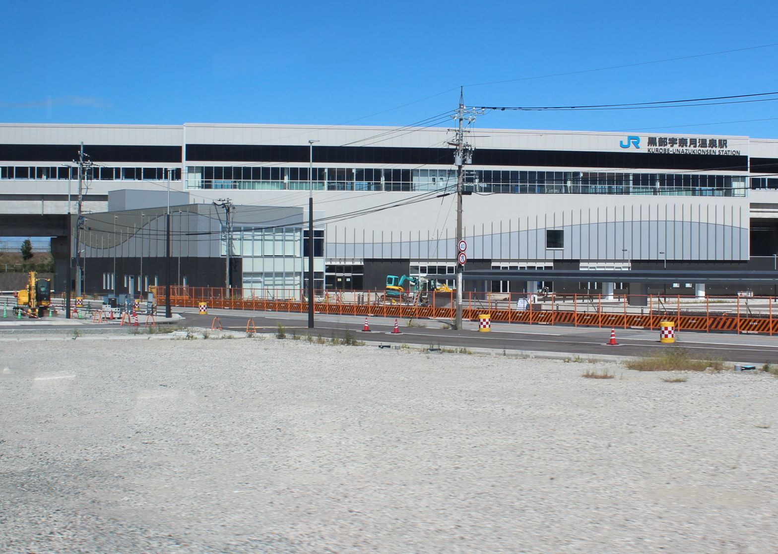 Kurobe-Unazukionsen Station under construction on the Hokuriku Shinkansen in Kurobe, Toyama, Japan